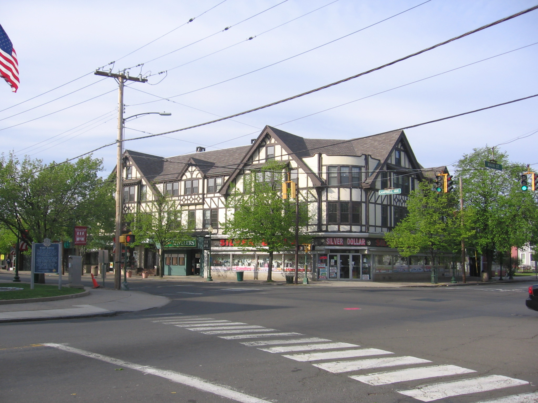 Looking northeast from the Green at the half timbered building across the intersection of Main Street (runs from lower right to mid left) and Campbell Avenue (runs from left down to lower right) in West Haven, Connecticut.